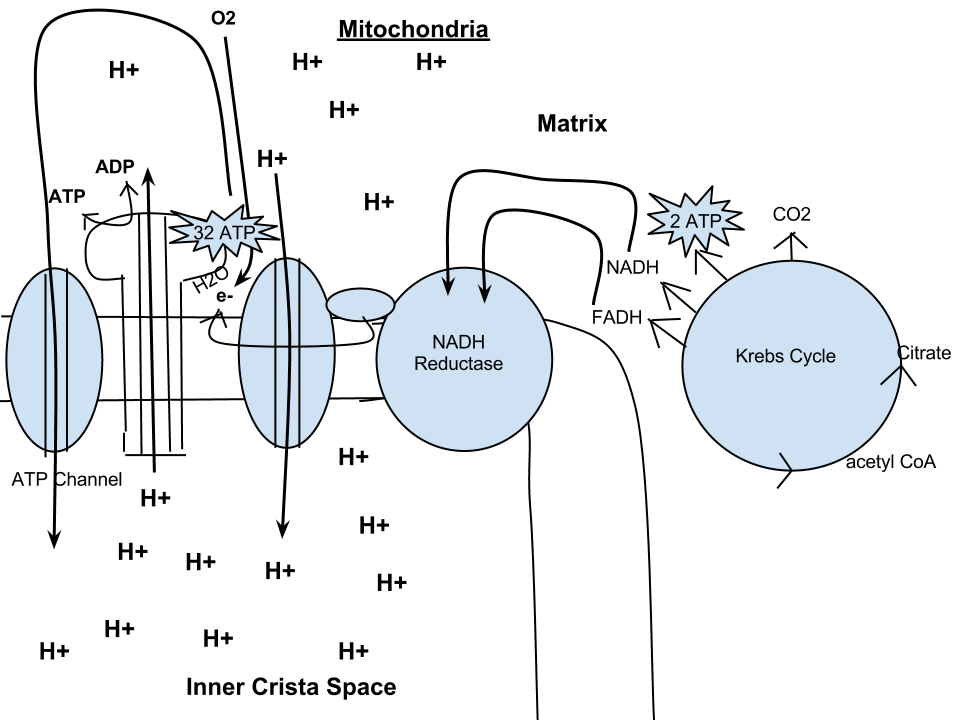 Cellular respiration in the mitochondria.